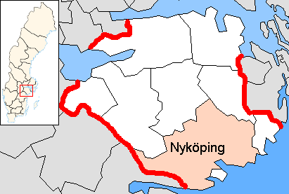 Nyköping Municipality in Södermanland County Designd by me, based on Image:Södermanland County.png